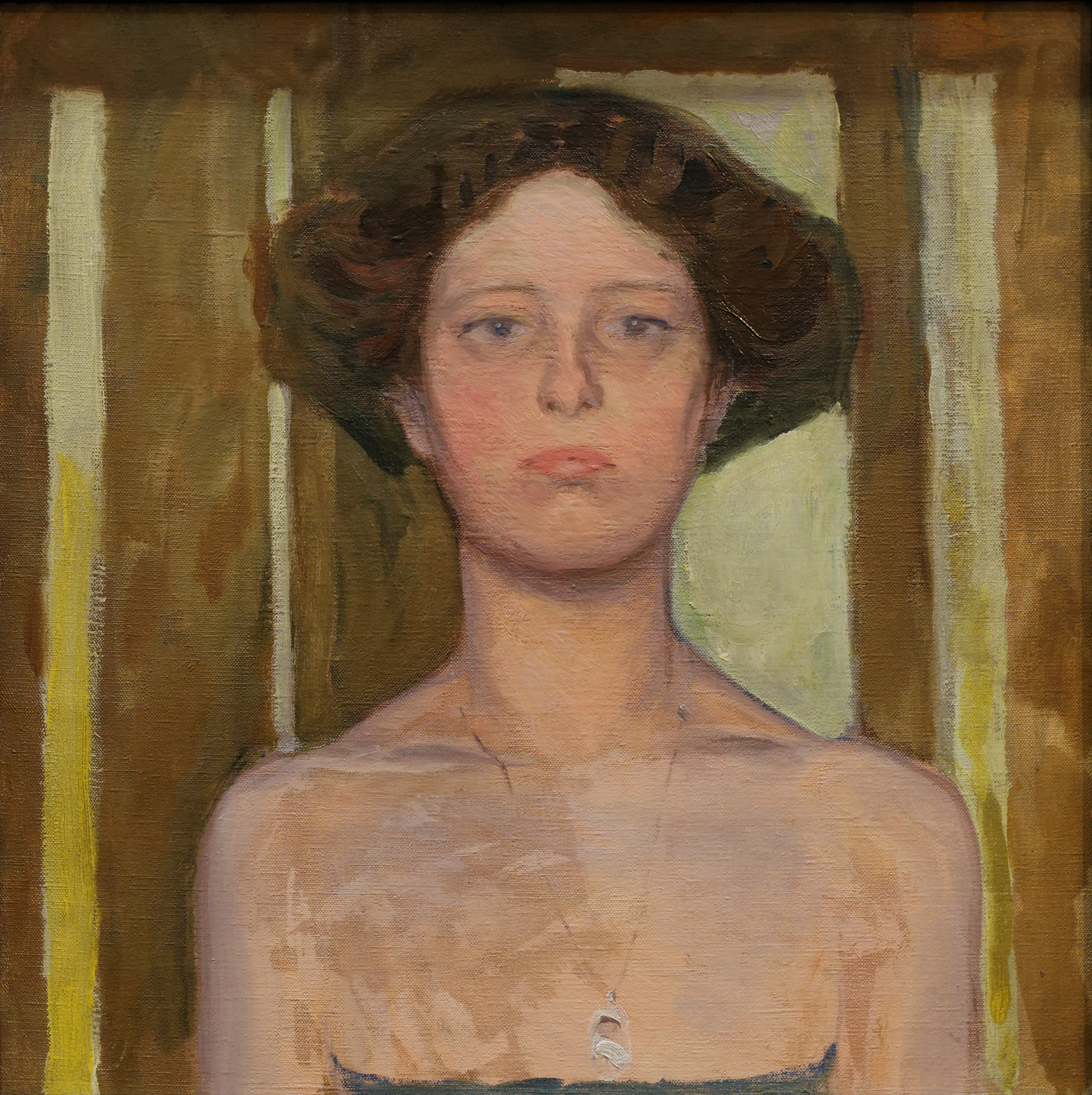 Girl with Necklacelabel QS:Len,"Girl with Necklace"label QS:Lfr,"Jeune fille au collier."